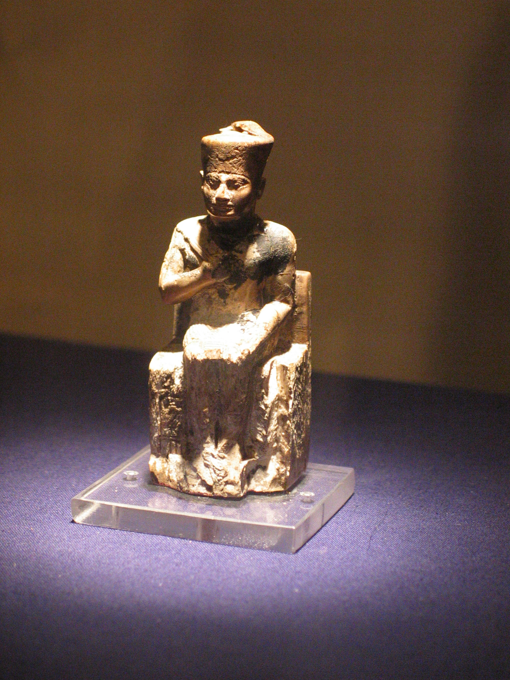 Statue of Khufu in the Cairo Egyptian Museum (JE 36143)